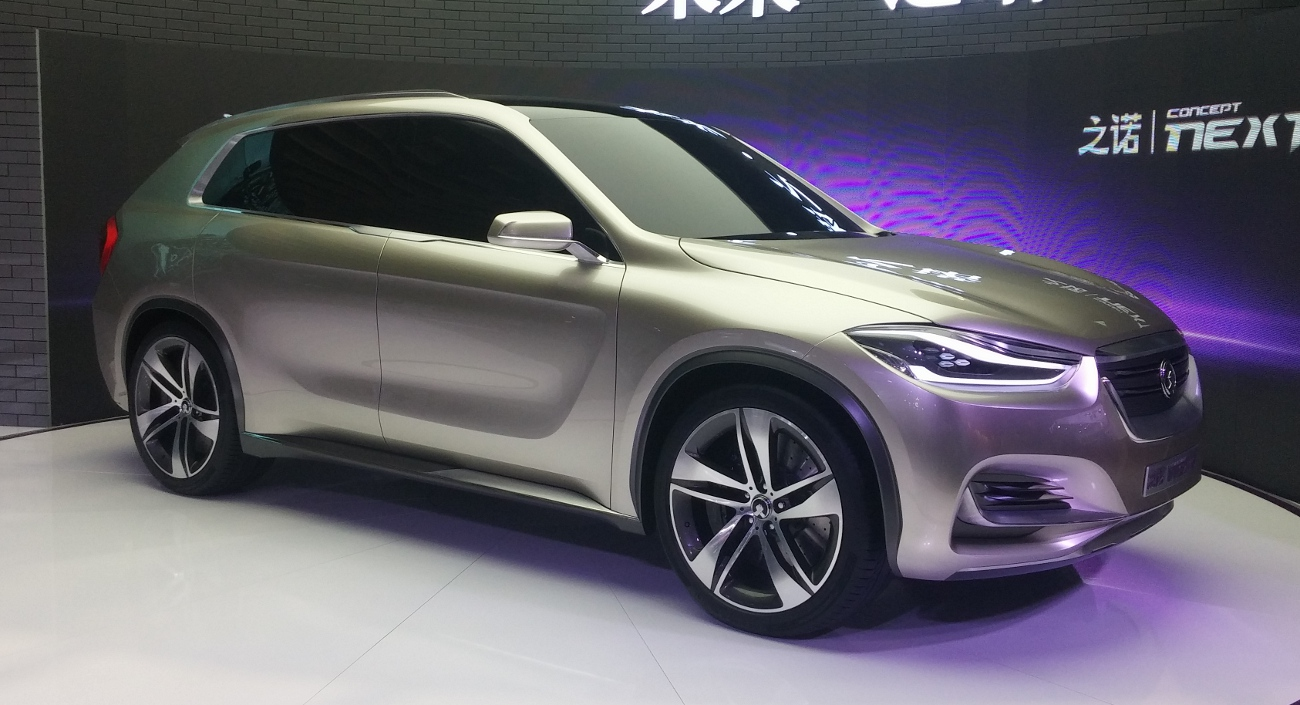 Zinoro Concept Next photographed at the Auto Shanghai 2015, Shanghai, China.